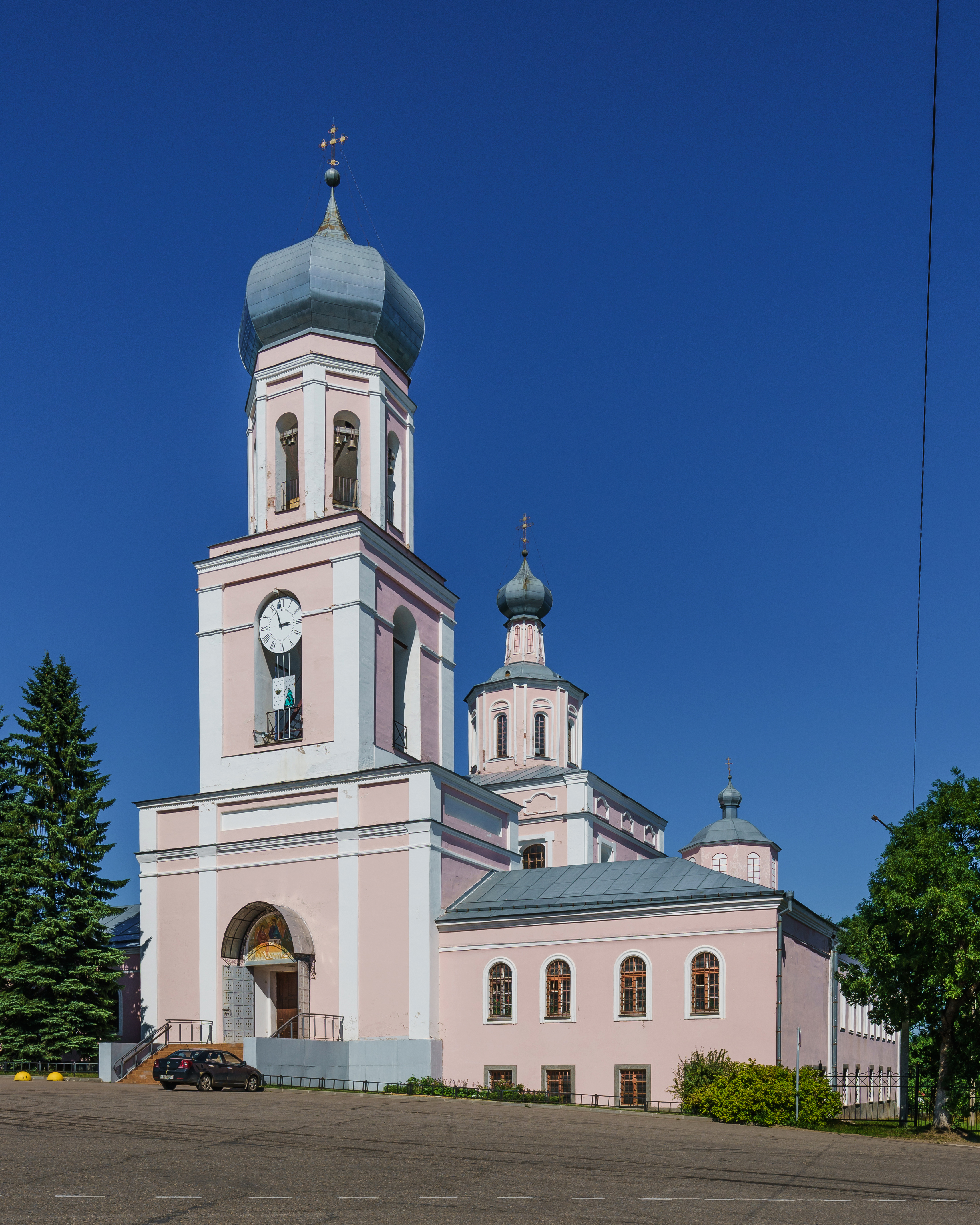 Holy Trinity Cathedral in Valdai, Novgorod Oblast, Russia